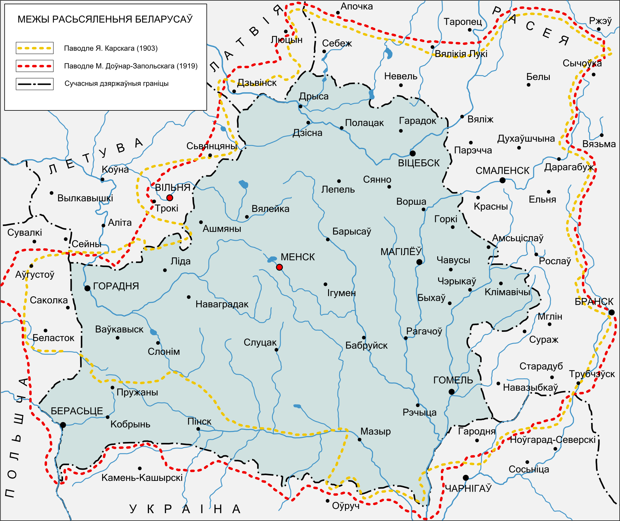 Ethnic territory of Belarusians Lines According to J. Karski (1903) According to M. Doŭnar-Zapolski (1919) Modern state boundaries